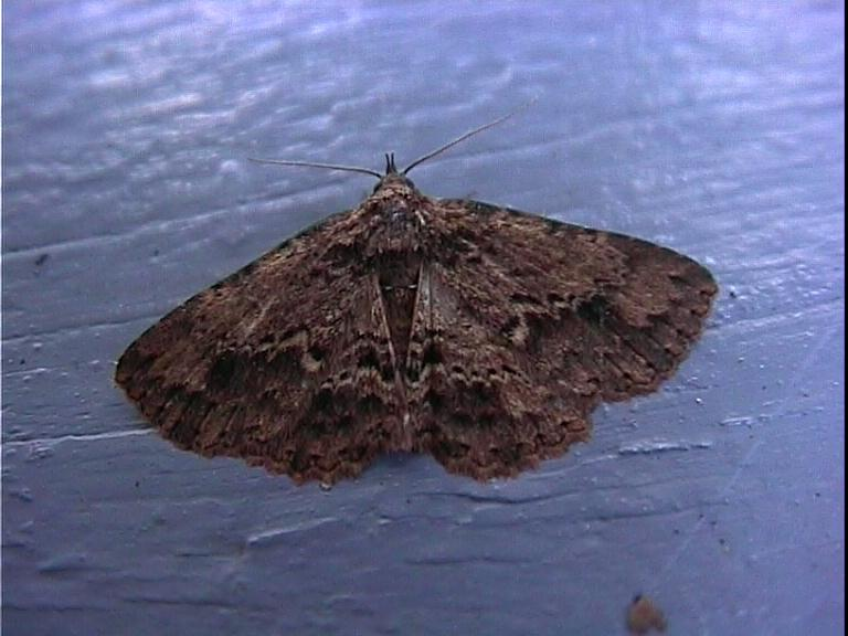 Artigisa melanephele, Mairangi Bay, Auckland, New Zealand, 2 January 2000